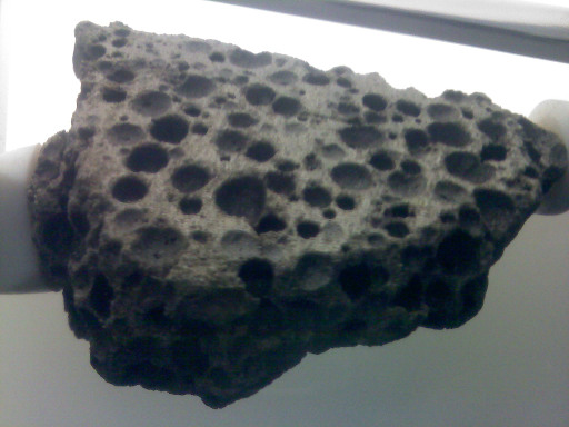 Piece of Lunar Sample 15016 on display at the National Air and Space Museum in Washington, DC. This rock is known as the seatbelt basalt.